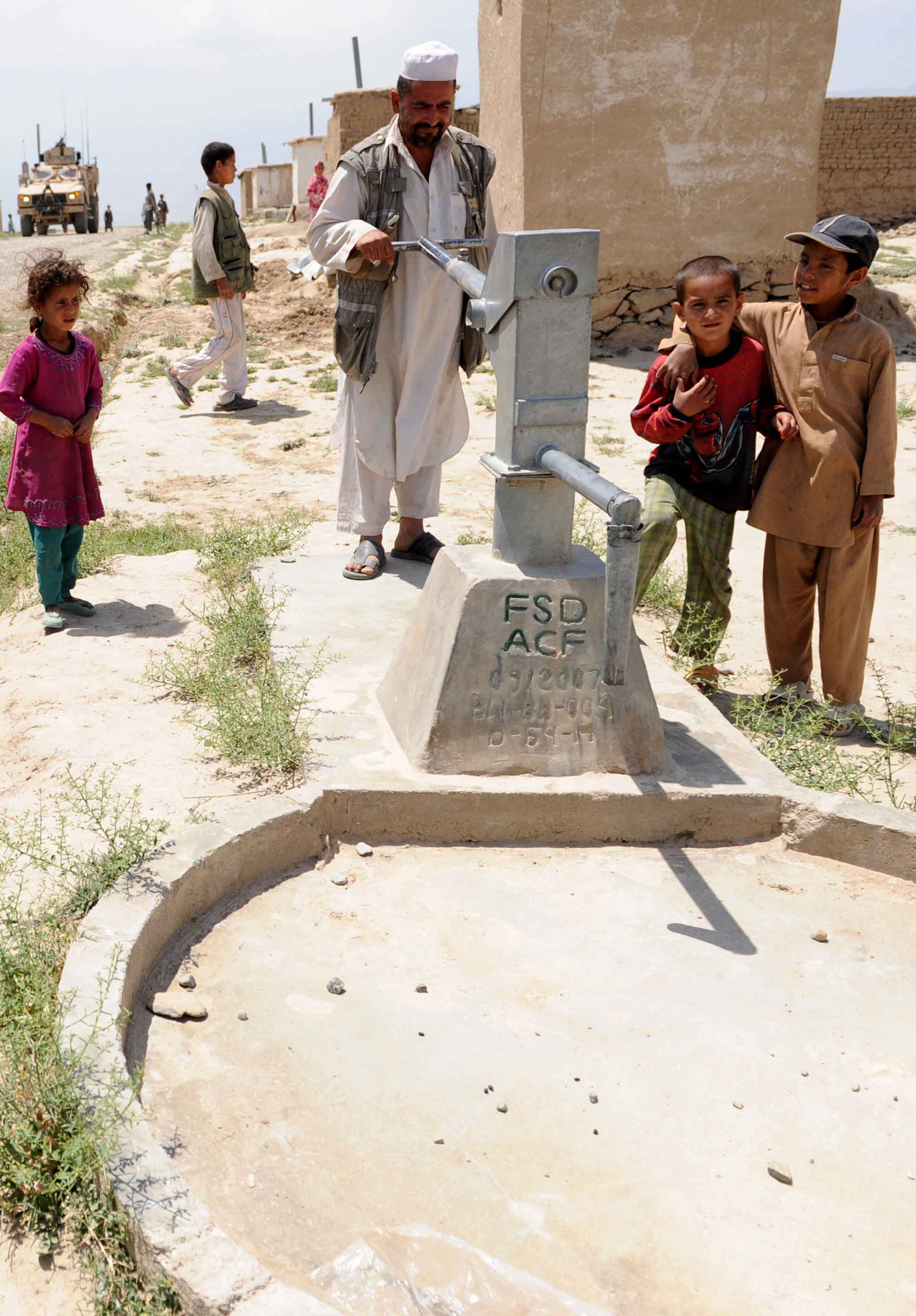 100512-F-5994S-024 PARWAN PROVINCE, Afghanistan – A local village elder shows Parwan Provincial Reconstruction Team members that a village well is dry in Barikop, Parwan province, Afghanistan, May 12. Of the 50 wells in the returnee village of Barikop, also known as Beni Warsak, only four of the wells still work. The PRT met with Mr. Esmatullah Karimi, Parwan director of refugees and repatriation, Engineer Abdul Majid, Panjshir DoRR, Mr. Haji Sulaiman, deputy mayor of Panjshir and village elders to discusses the issues of resettling Afghans to the village not far from the base. There are currently 500 families living in Beni Warsak. (Photo by U.S. Air Force Master Sgt. Kelley J. Stewart, Parwan Provincial Reconstruction Team)